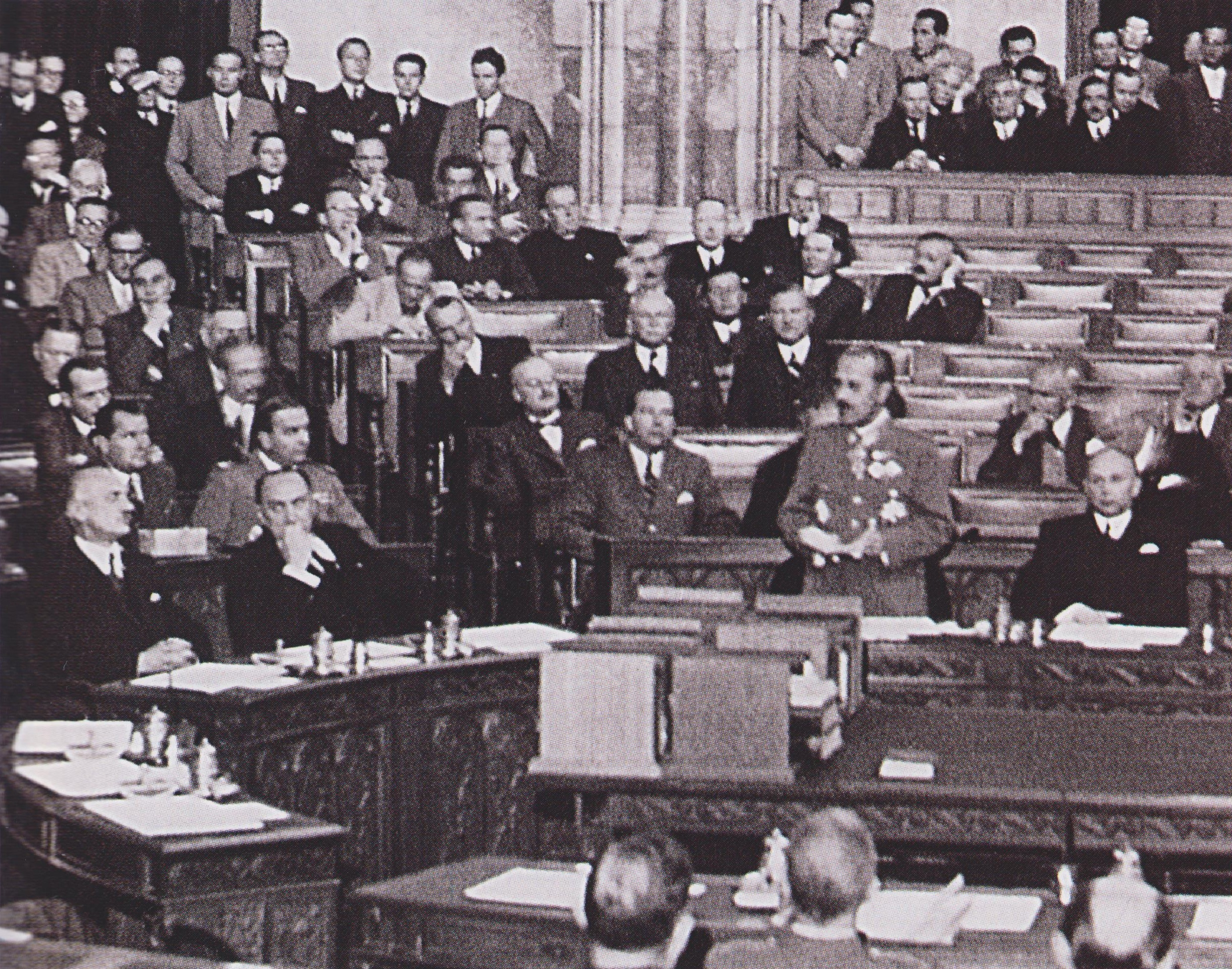 Inauguration of the Cabinet of Géza Lakatos before the Parliament in Sept. 1944